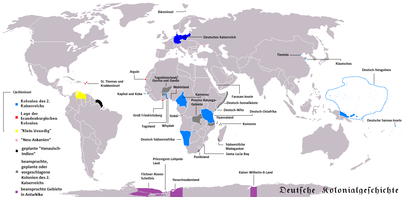 German colonies German Empire Colonies of the German Empire Jiaozhou (Concession in China) Brandenburgian-Prussian Colonies (ca. 1680-1720) "Little Venice" (1529-1556)